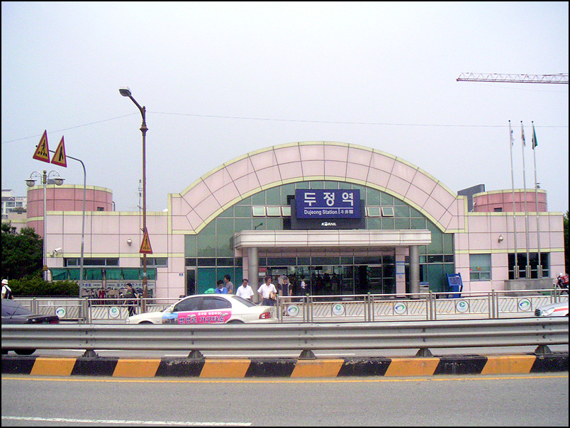 Dujeong Station